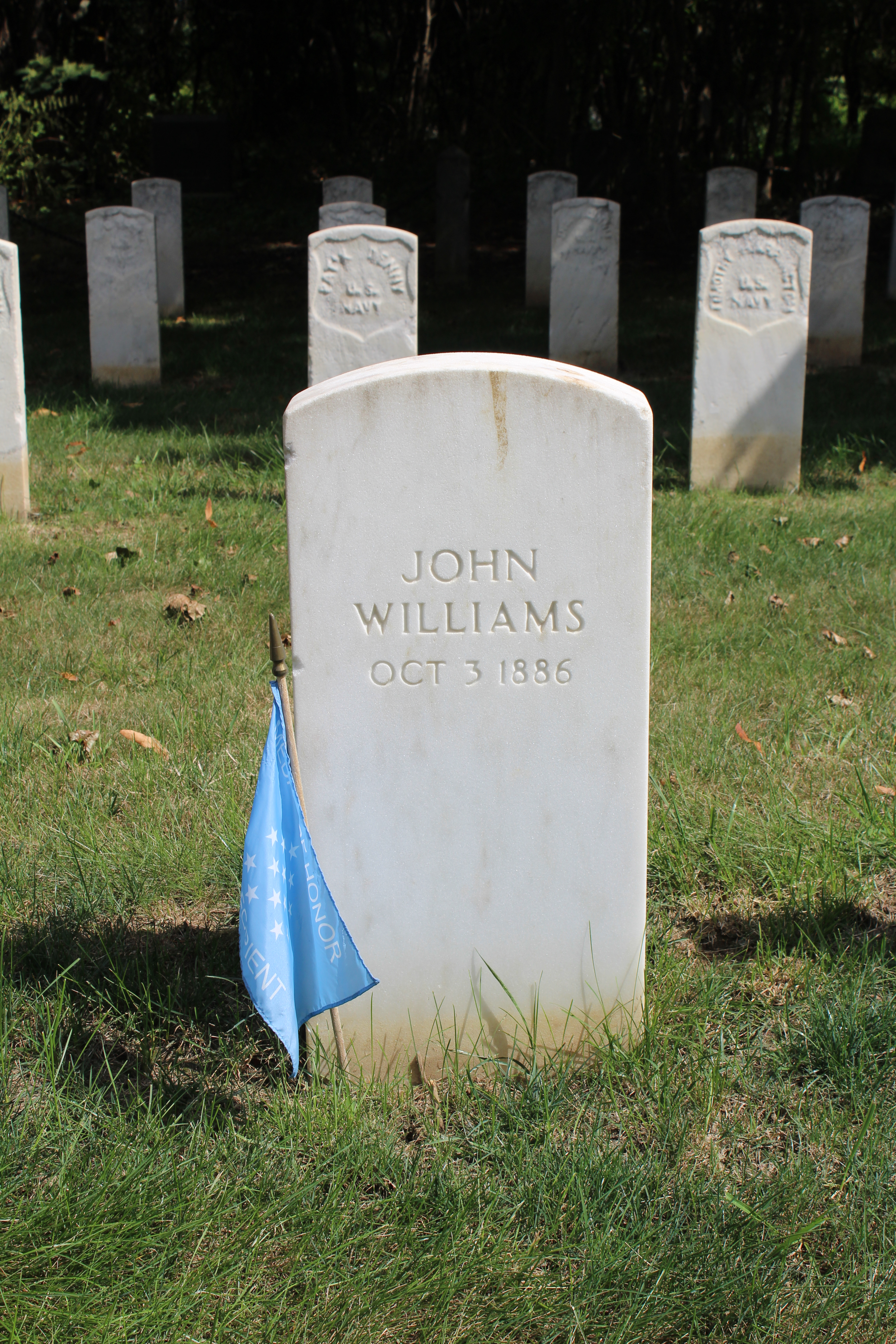 John Williams Medal of Honor recipient grave. Photo taken August 2019.